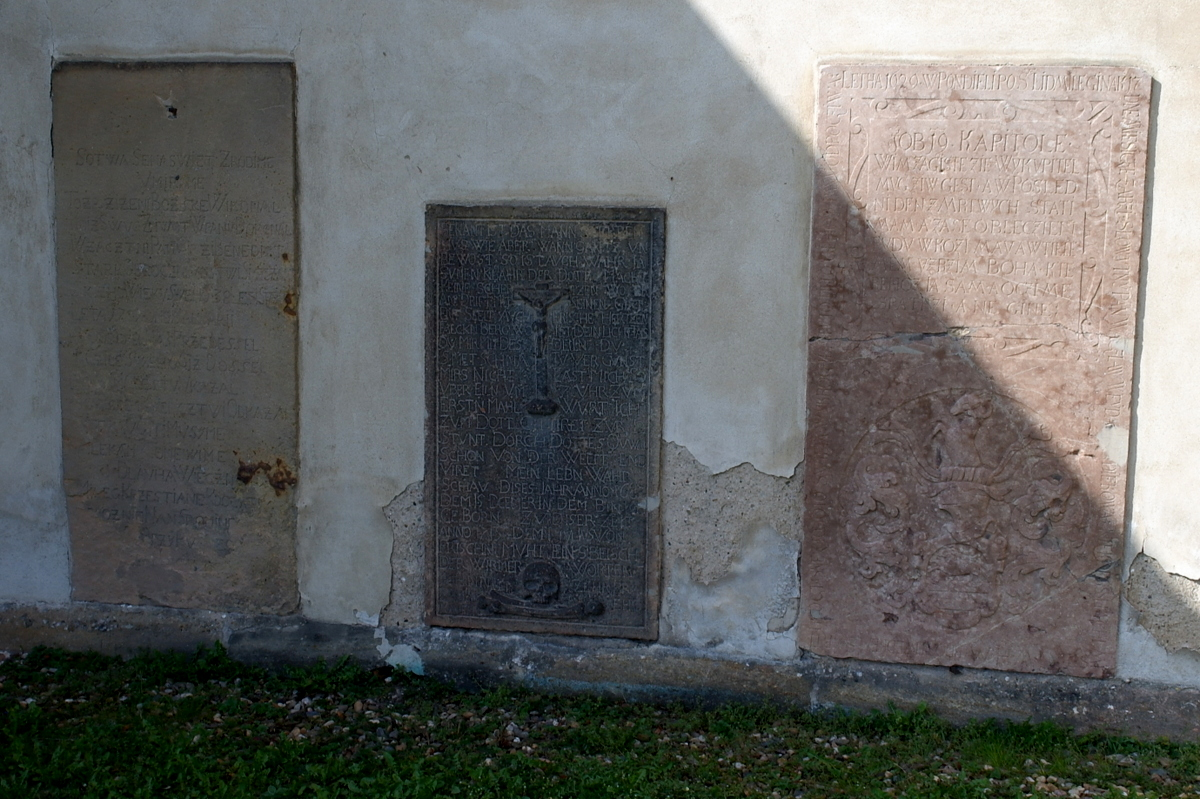 Holy Trinity Church, T. G. Masaryk square, Smečno, Kladno District. Old gravestones in the south wall of the nave remind a cemetery, by which the church was once surrounded.